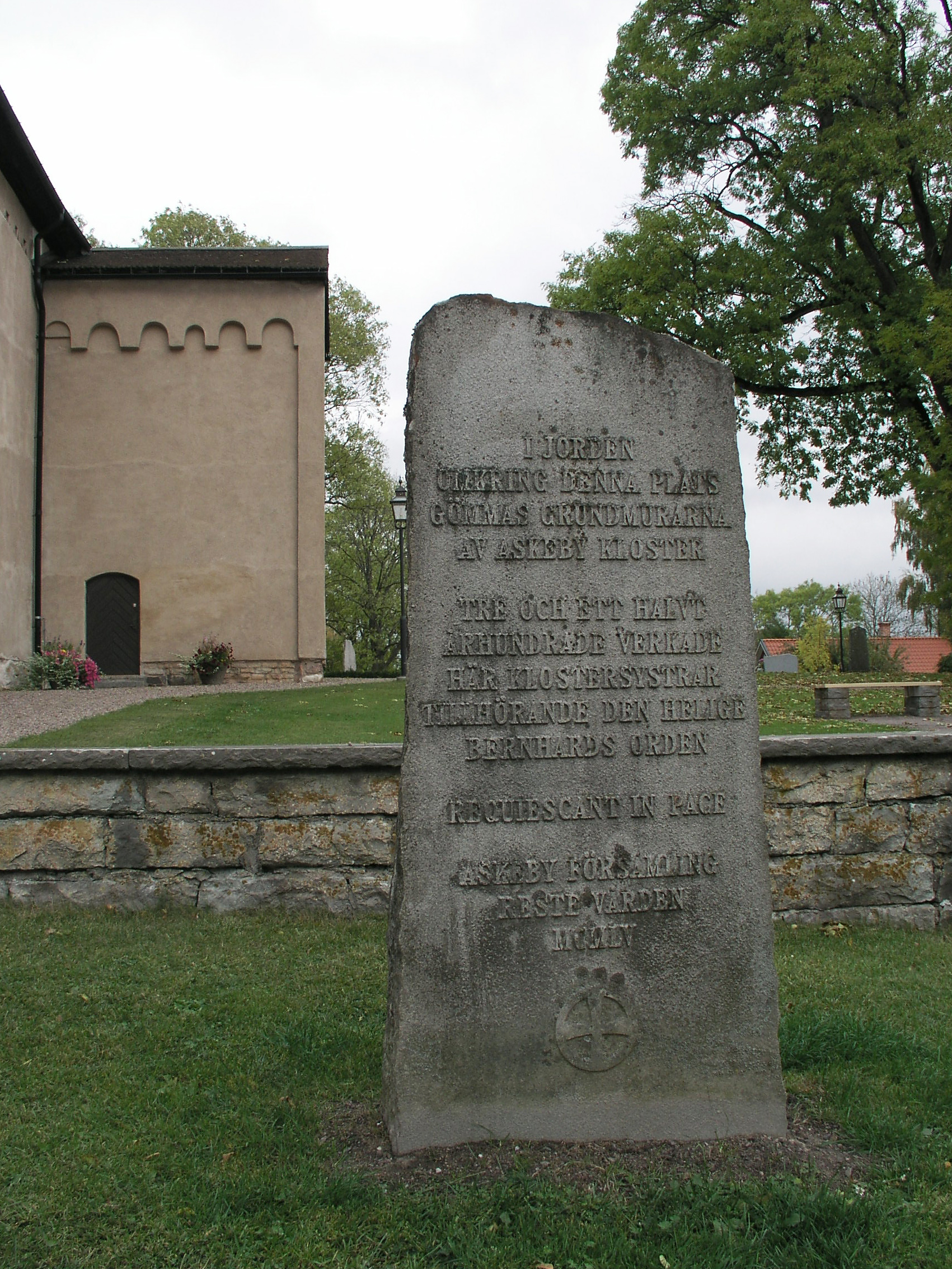 Askeby convent. Memorial stone. The picture was taken the 2nd October 2005 by Håkan Svensson (Xauxa). The text on the stone reads: I jorden omkring denna plats gömmas grundmurarna av Askeby kloster. Tre och ett halvt århundrade verkade här klostersystrar tillhörande den helige Bernhards orden. Requiescant in pace. Askeby församling resten vården. MCMLV. Rough translation: In the soil surrounding this place are hidden the ground walls of Askeby convent. For three and a half century nuns of Saint Bernhard's order were at work here. Rest in peace. Askeby parish raised the memorial. 1955.